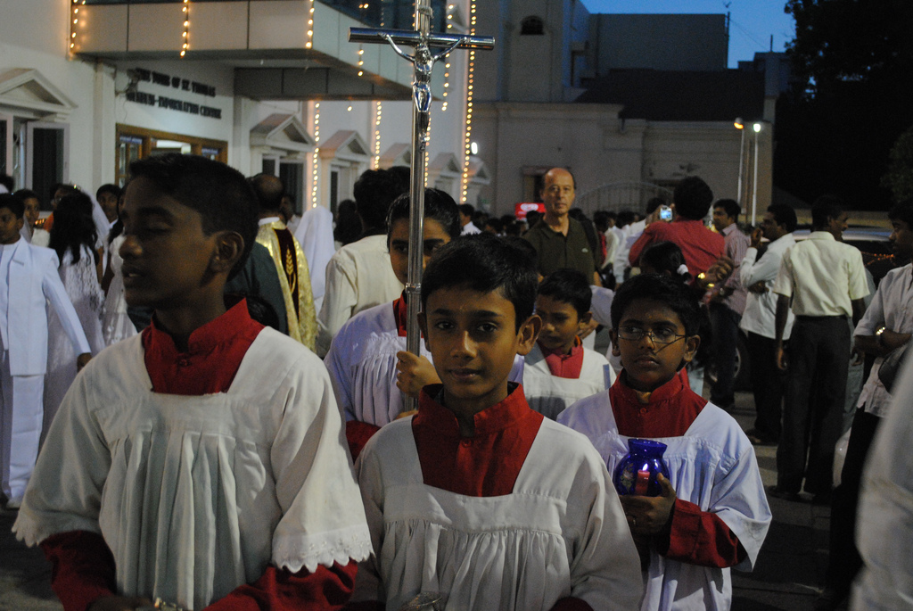 Altar servers getting ready for the procession Altar servers wait for the entrance procession to begin